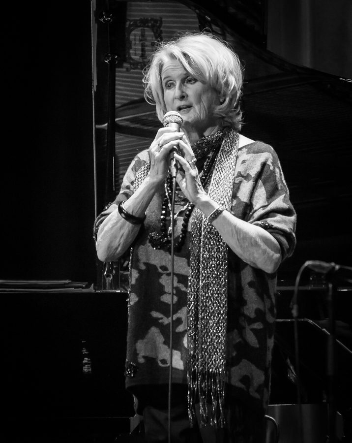 Karin Krog in concert at Cosmopolite in 2015.